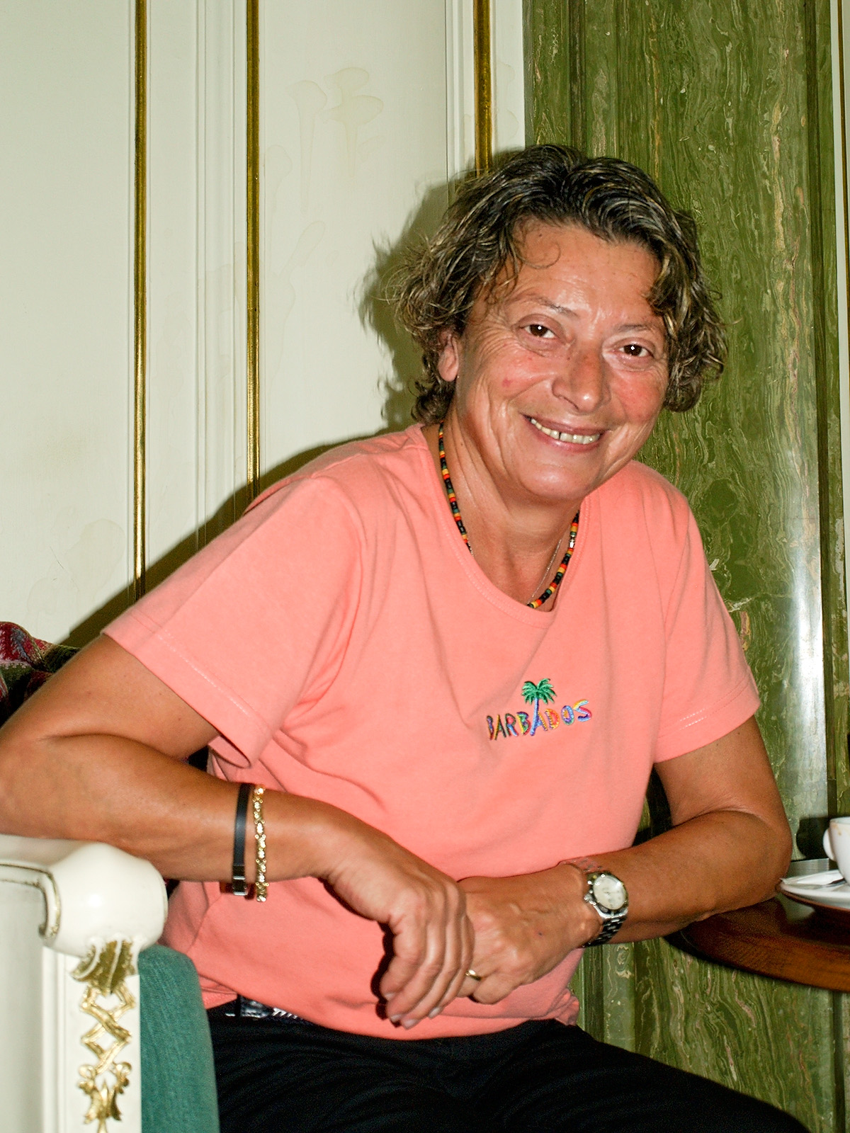 Czech film, television and document director, screenwriter and academic Jitka Němcová